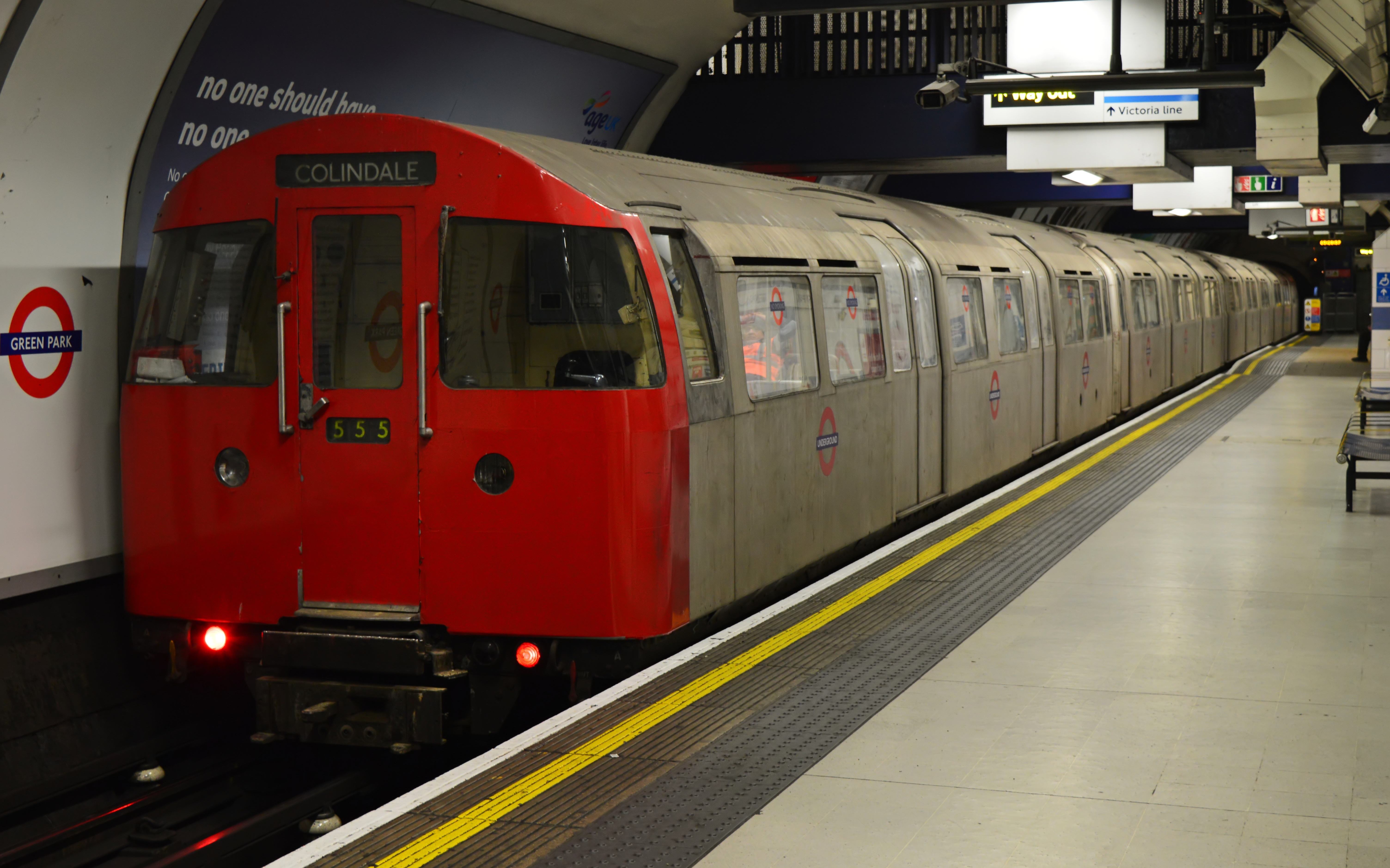 1972 MkI Tube Stock at Green Park